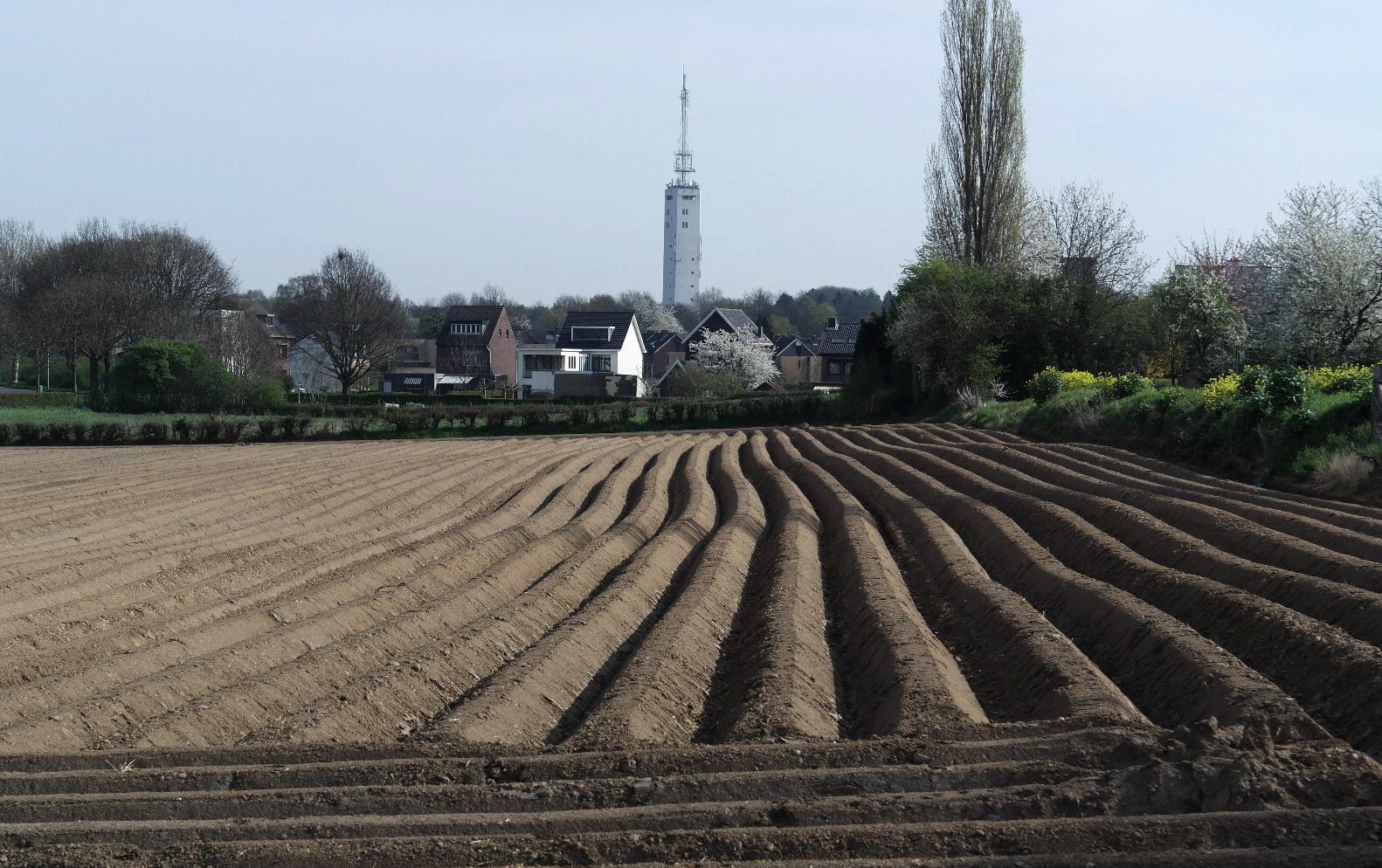 Maastricht, the Netherlands. View of telecom tower in the southwestern neighbourhood of Daalhof.